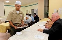 Photo caption from official U.S. Marince Corps website: MARINE CORPS BASE CAMP PENDLETON, Calif.-Navy Lt. j.g. Asif. I. Balbale, Islamic chaplain, Amphibious Assault Schools Battalion, Camp Pendleton, offers dates to partakers during an iftar ceremony conducted at base’s South Mesa Chapel, Aug. 31. An iftar is a ritual for Muslims, enjoyed in a family or community setting that celebrates the Islamic holy period of Ramadan., Lance Cpl. John Robbart III, 8/31/2010 3:21 PM